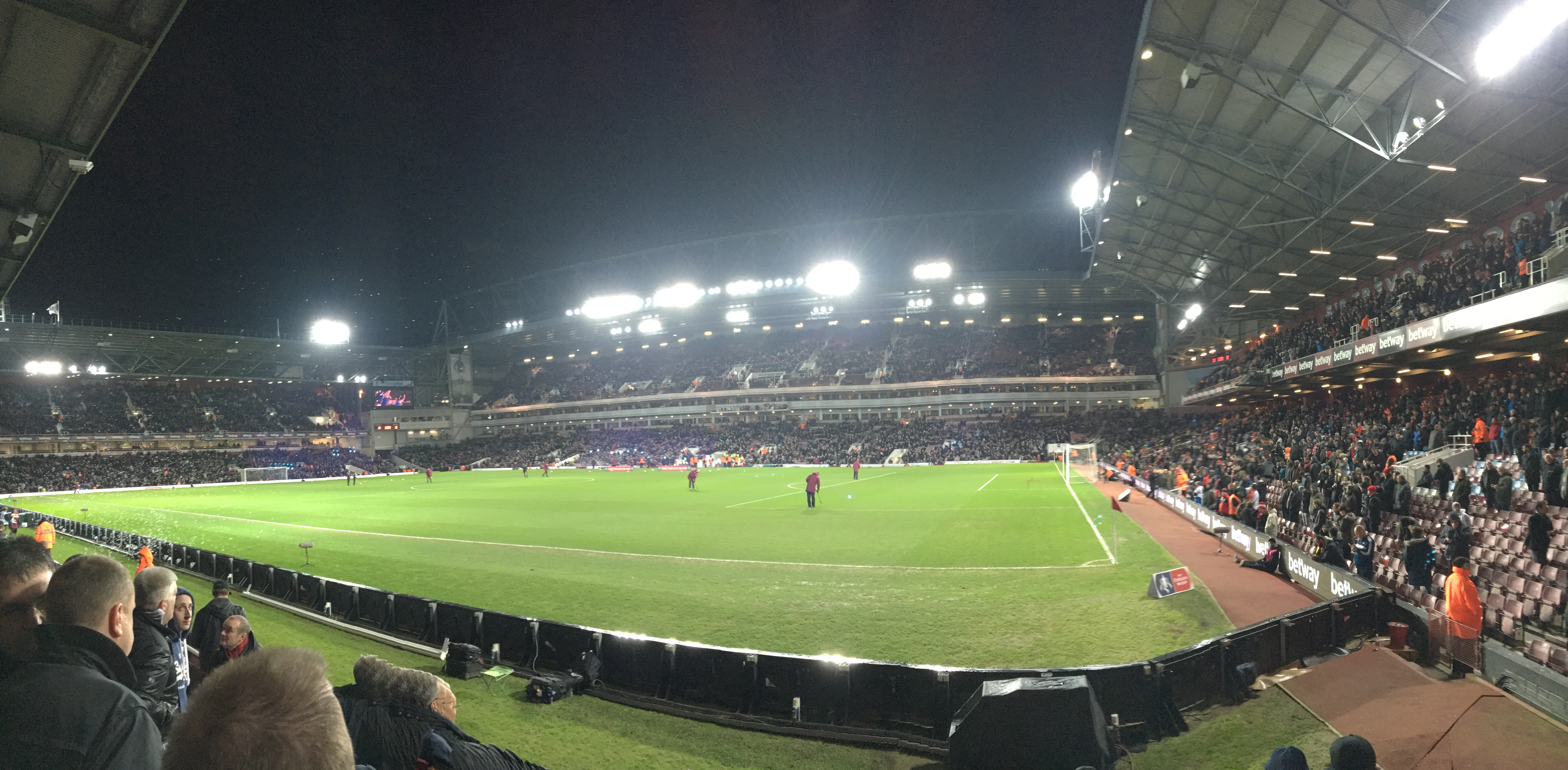 Taken before kick off in the FA Cup tie against Liverpool in which Angelo Ogbonna scored a last minute winner in extra time to send West Ham into the next round.